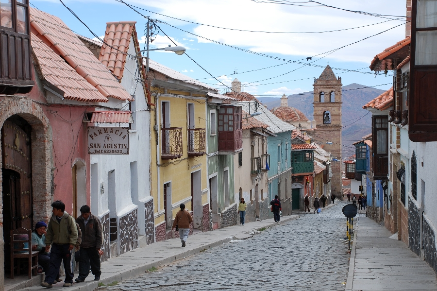 Potosi Street Scene, Altitude 4100 Meter, Bolivia